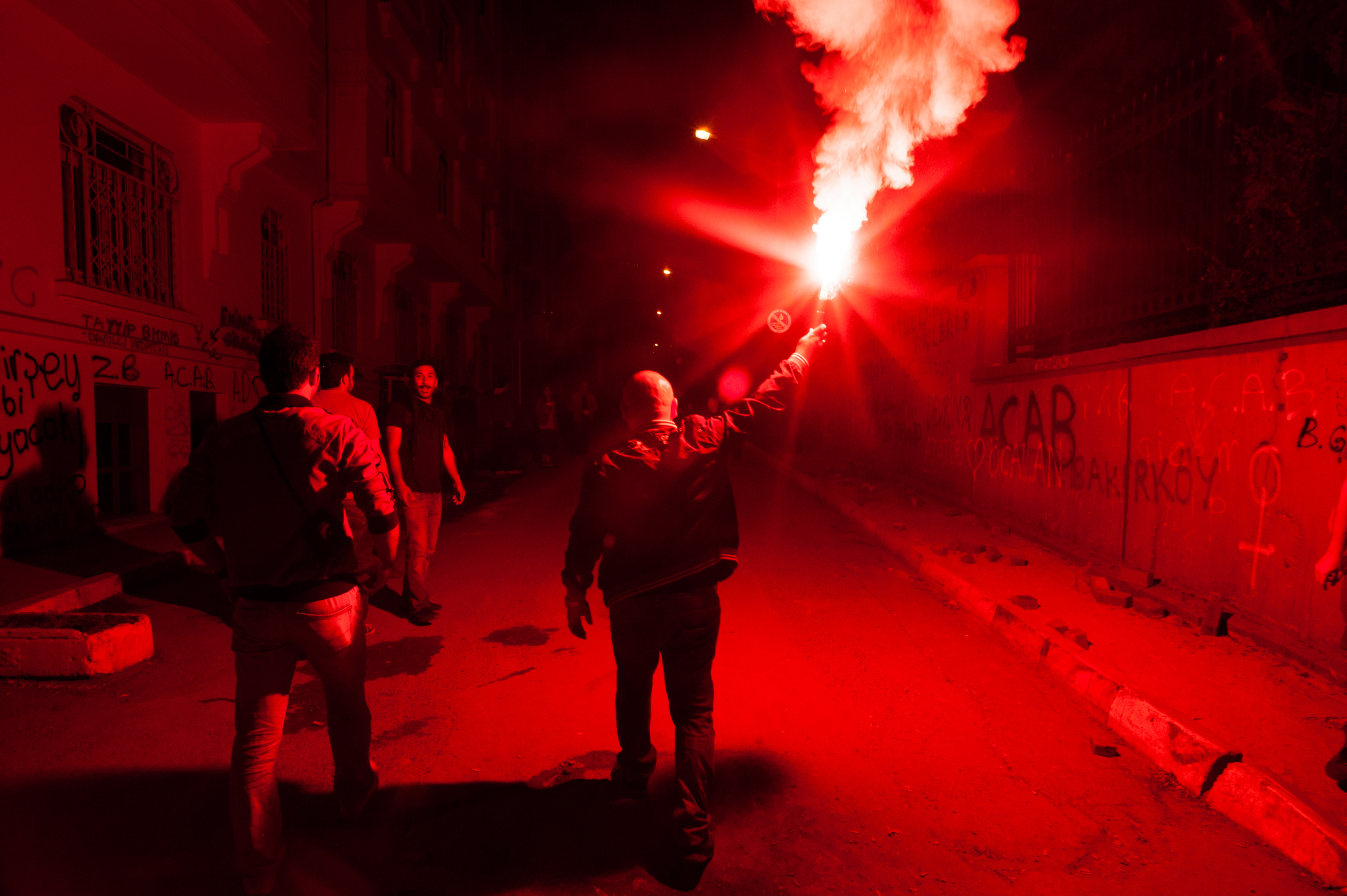 Taksim night protests. Events of June 5, 2013.